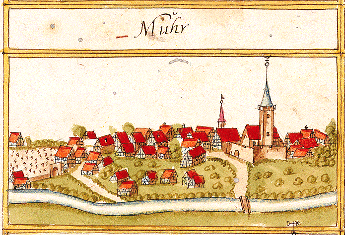 View of Murr from the forest register books created by Andreas Kieser